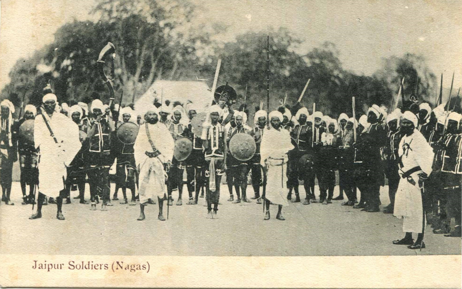 Warrior-ascetics: the group of Nagas at Jaipur in Rajasthan, 1900